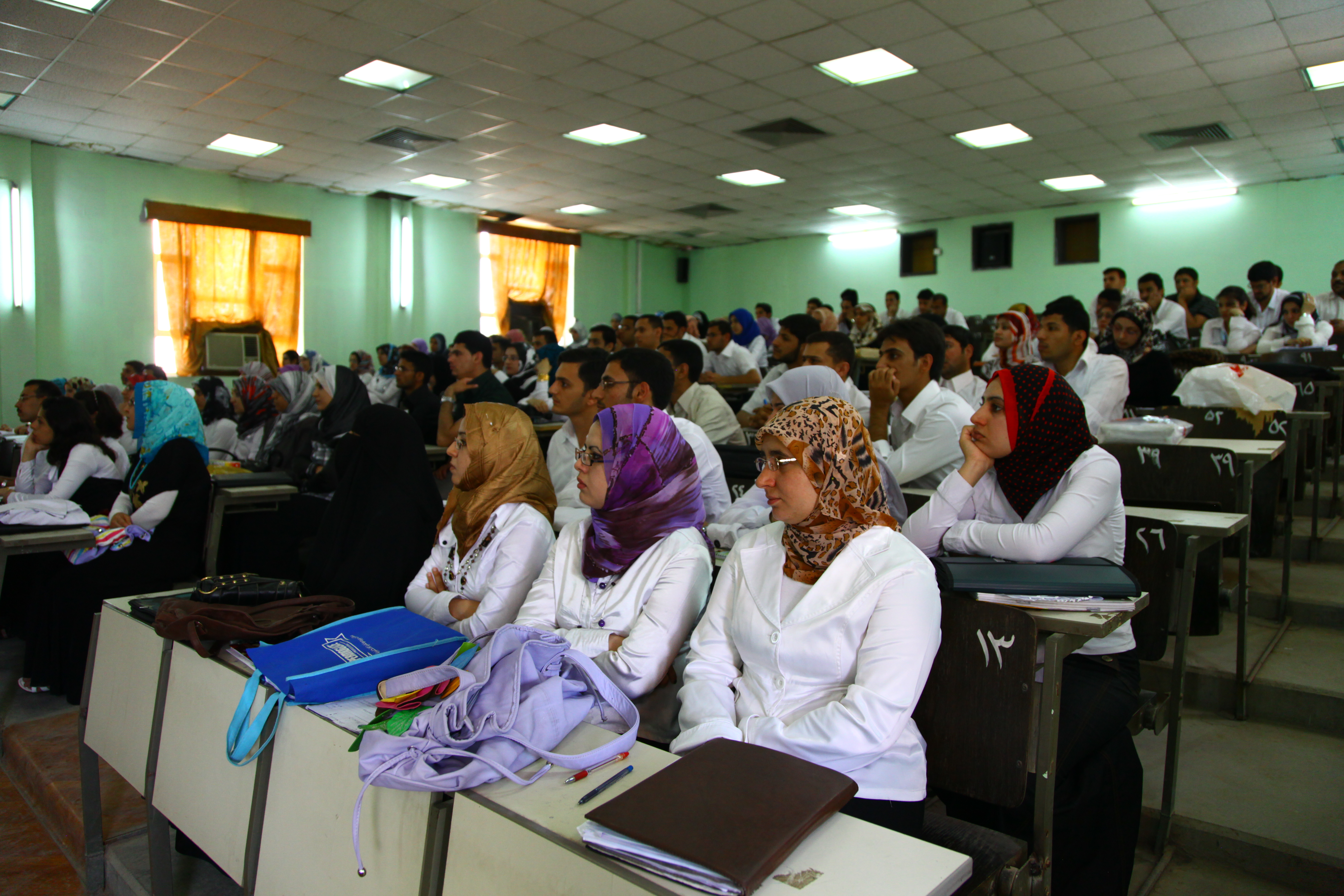 Iraqi medical students, at University of Basrah College of Medicine listen to a lecture by U.S. Army Maj. Anthony Rudd, in Basra, Iraq, Mar. 16, 2010. Rudd, of 486th Civil Affairs Battalion, attached to 1st Infantry Division, delivered the educational presentation on chest pain.